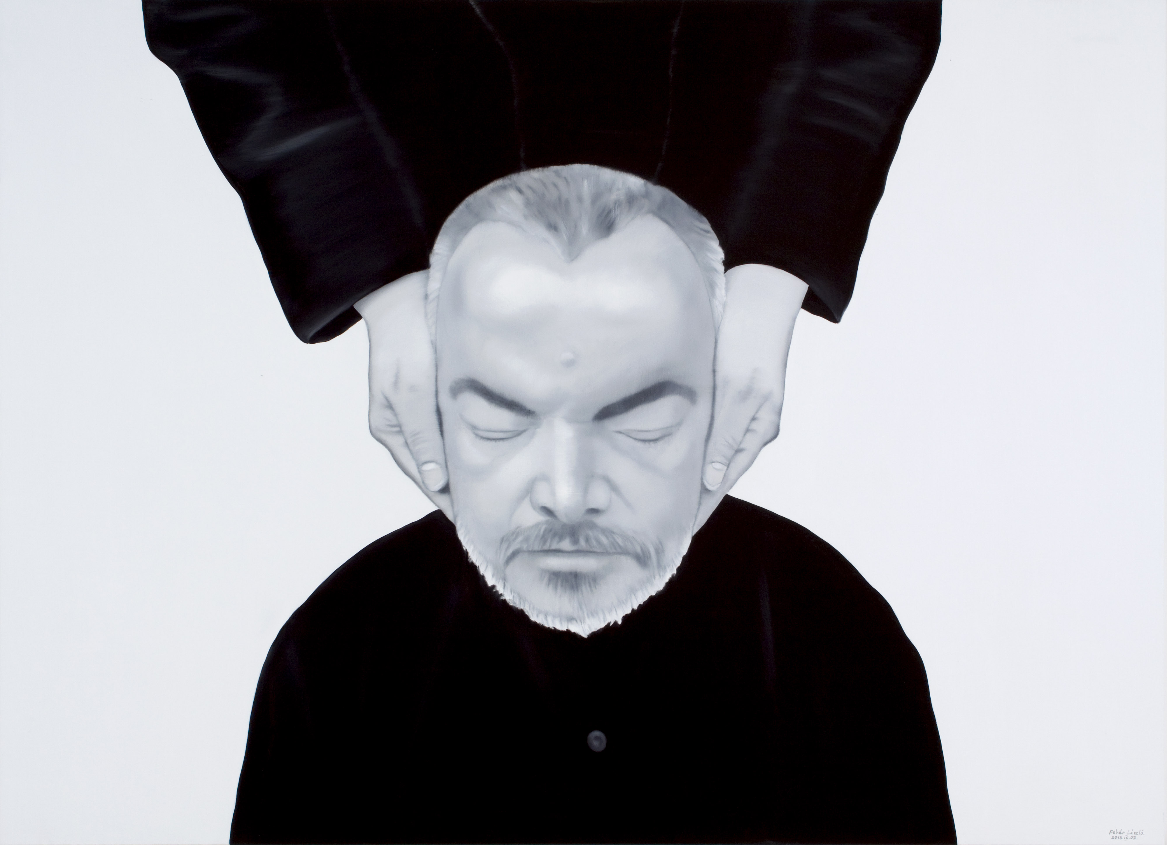 László Fehér, Self-portrait, 2013, oil on canvas, 160 x 220 cm